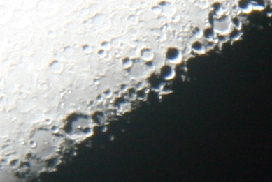 Lunar X formation created by sunlight during the few hours before 1st quarter